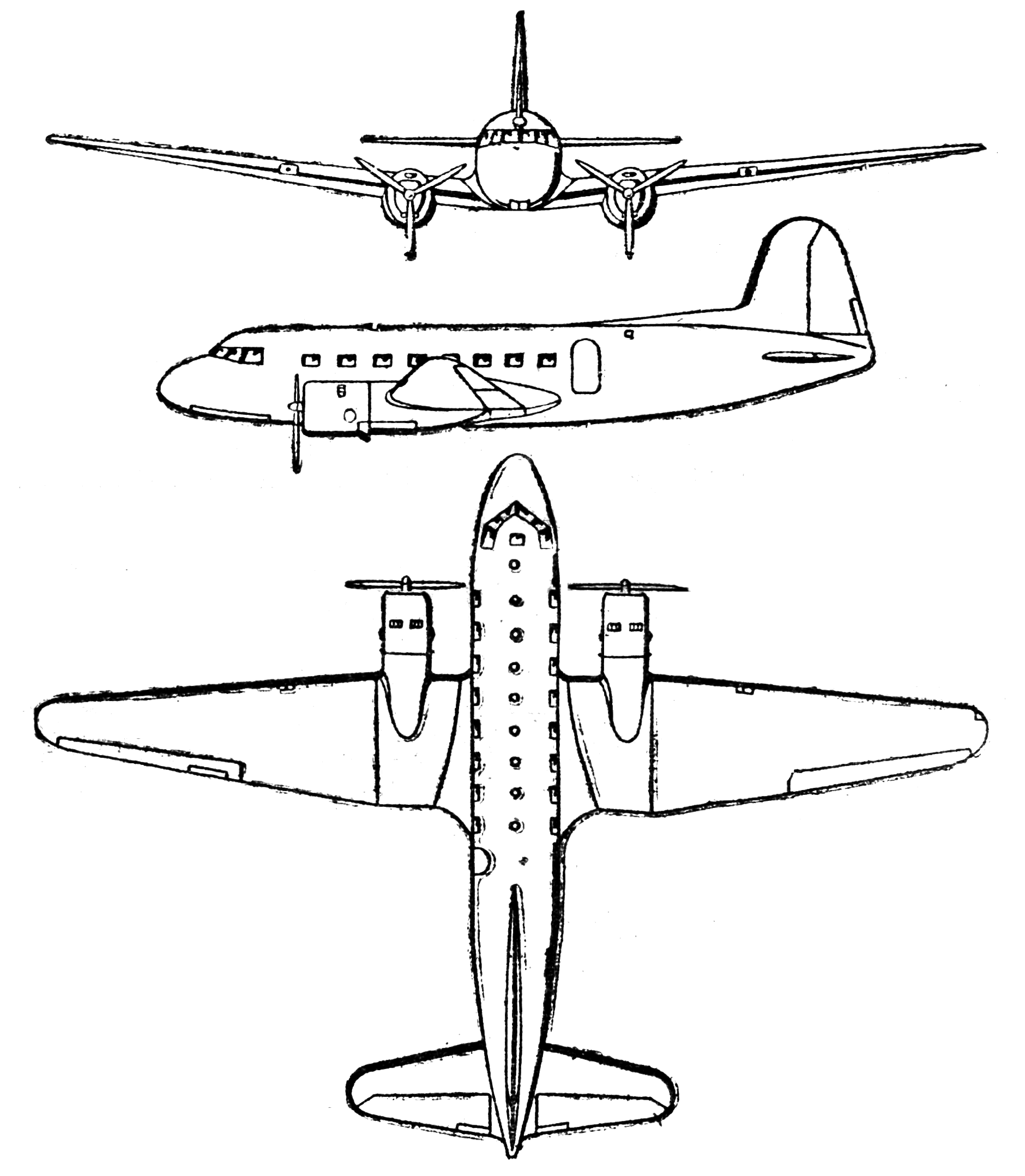 Saab 90 3-view drawing from Les Ailes March 22, 1947